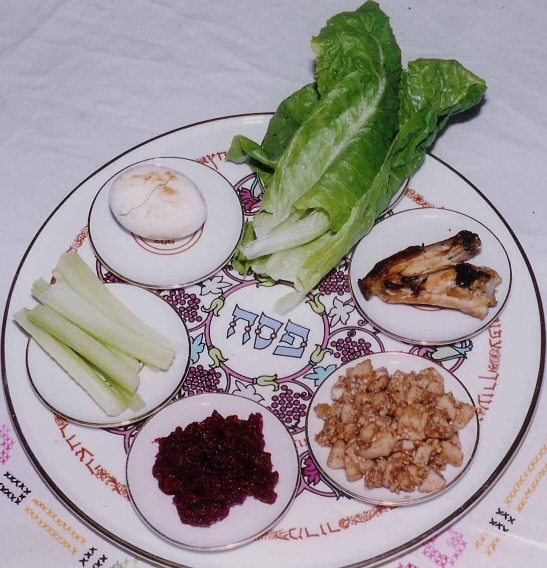 Photo of Passover Seder Plate showing (clockwise, beginning from top): maror (romaine lettuce), z'roa (roasted shankbone), charoset, maror (chrein), karpas (celery sticks), beitzah (roasted egg). Photographed on April 12 2006 by Yoninah. Yoninah 20:57, 20 May 2006 (UTC)